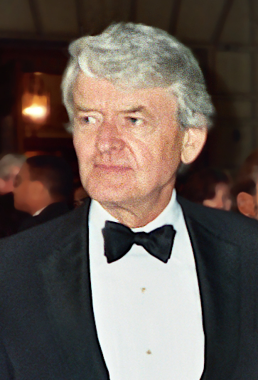 Photo taken at the 41st Emmy Awards 9/17/89